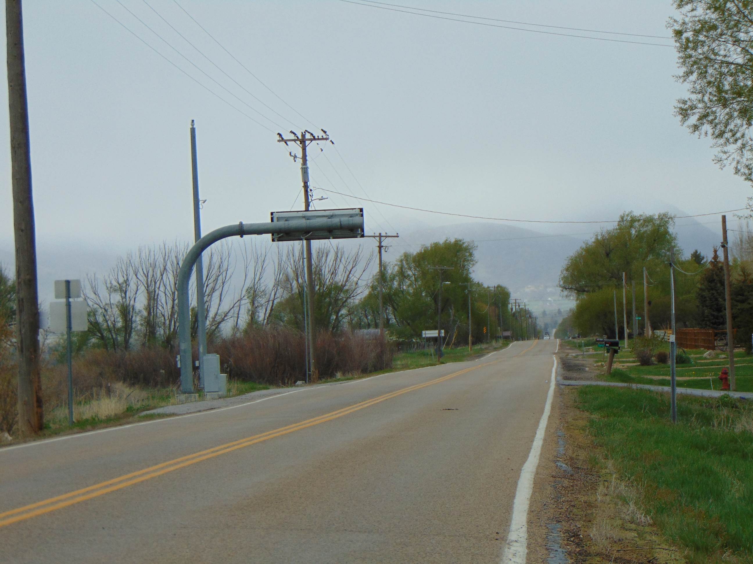 Looking north from the junction of U.S. Route 189 and Utah State Route 113 (the southern terminus of SR-113) in Charleston, Utah, April 2016